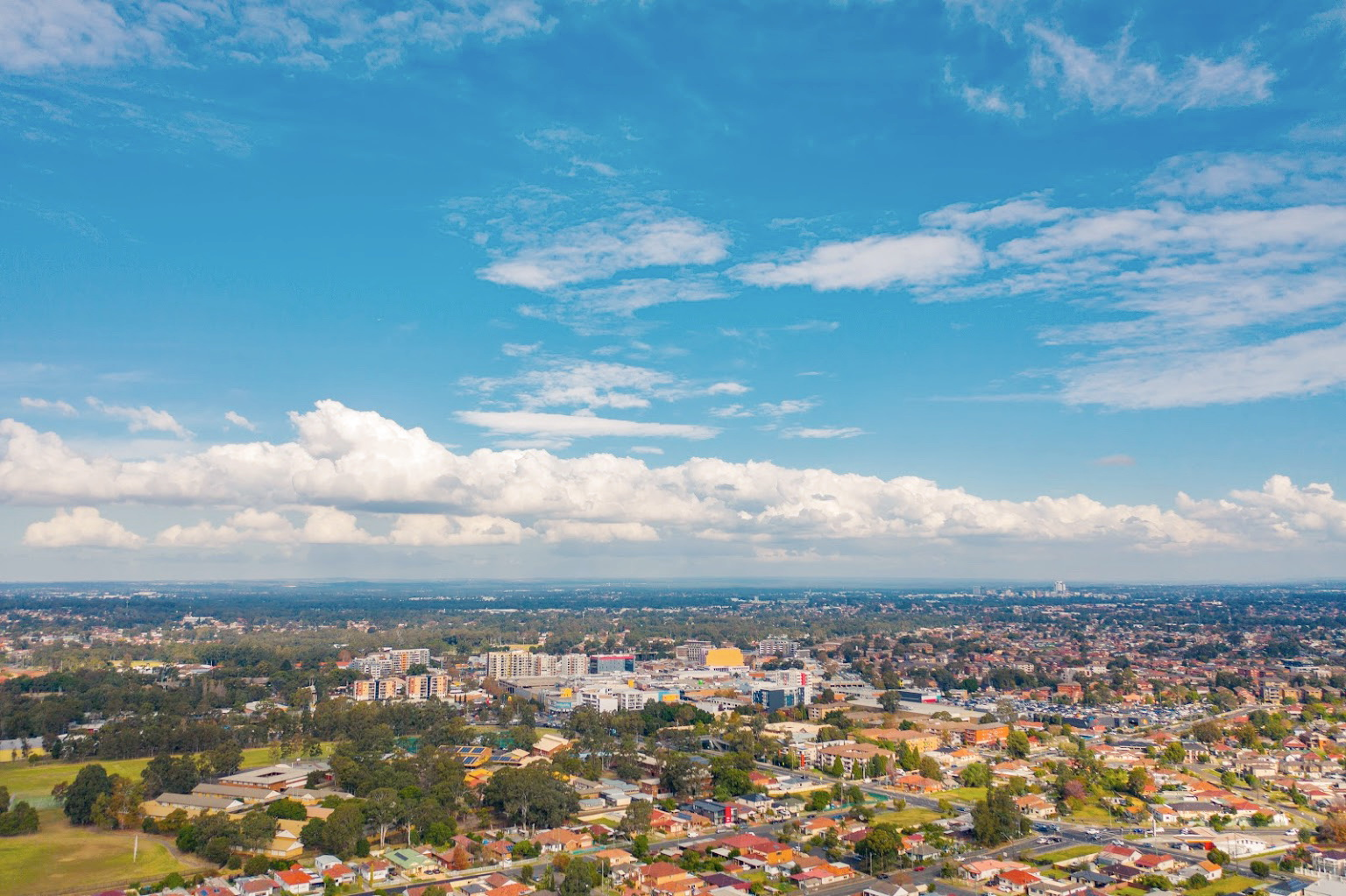 A bird's eye, southern view of the Fairfield town centre from Cawarra Place, near Prospect Creek.